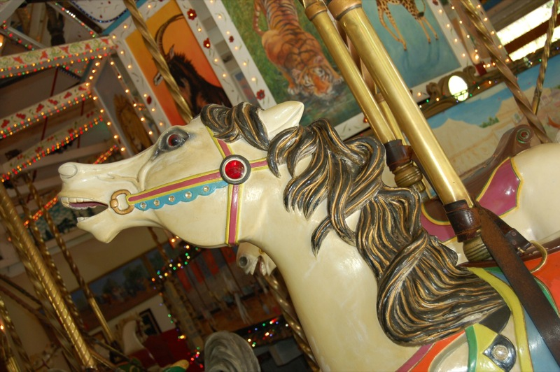 Carousel